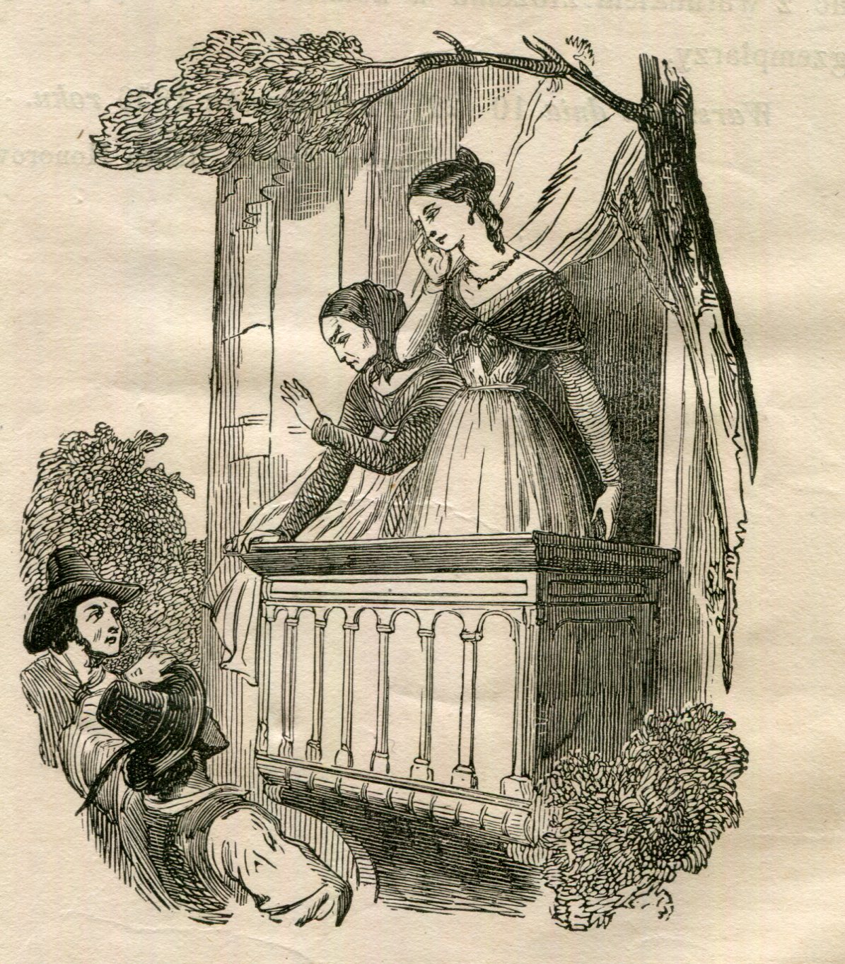 Illustration from Corinne ou l'Italie by Germaine de Staël (engraving by G. Staal)